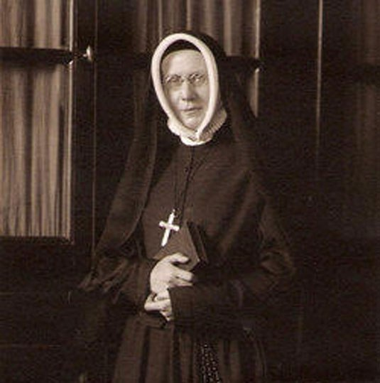 Janet Erskine Stuart, RSCJ (11 November 1857, Cottesmore, Rutland, England – 21 October 1914, Roehampton, England), also known as Mother Janet Stuart, was a Roman Catholic nun and educator. Guess pic date as 1910